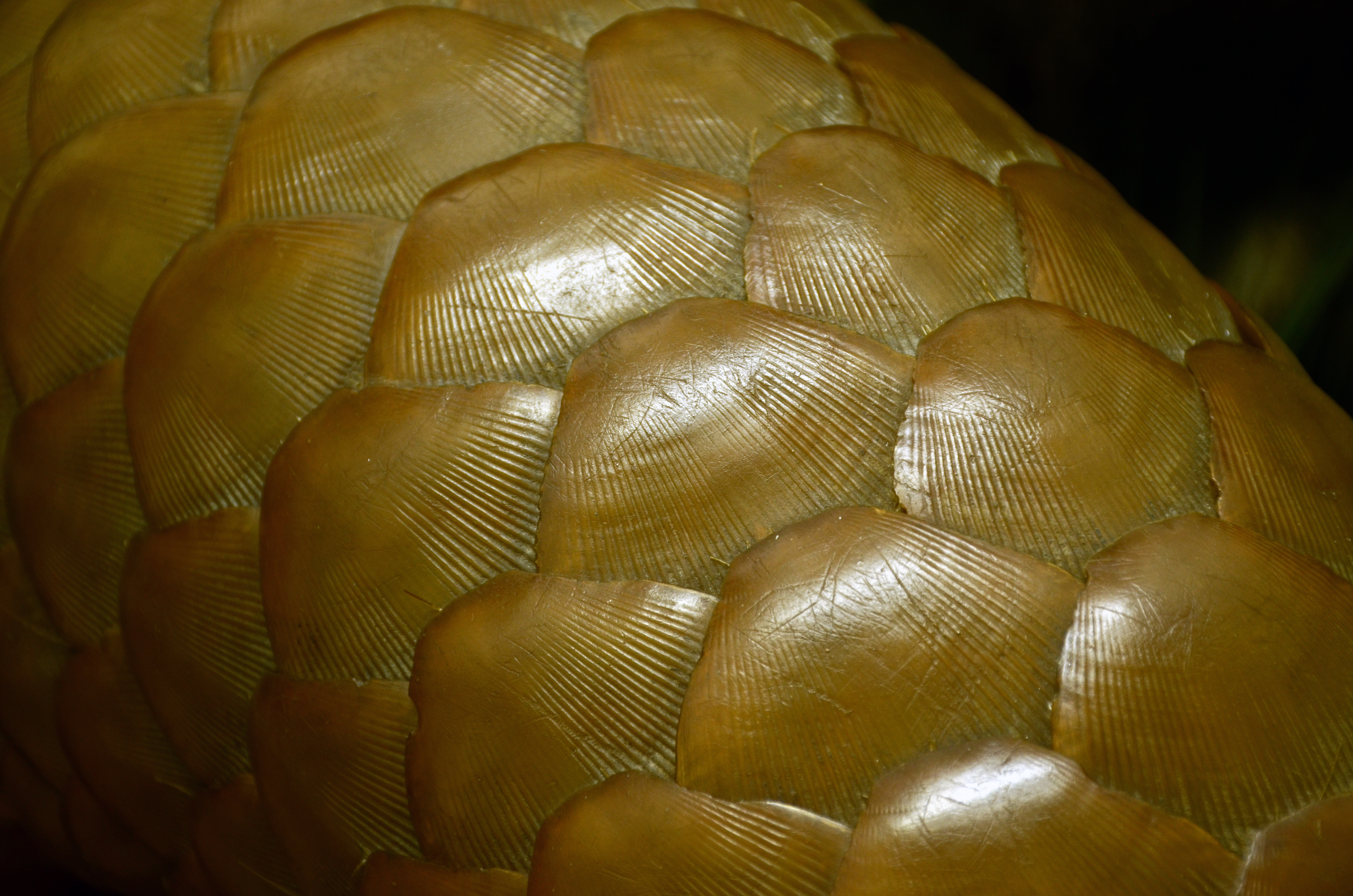 Detail of a taxidermied Sunda Pangolin ( Manis javanica ). Musée d'Histoire naturelle et Vivarium, in Tournai.